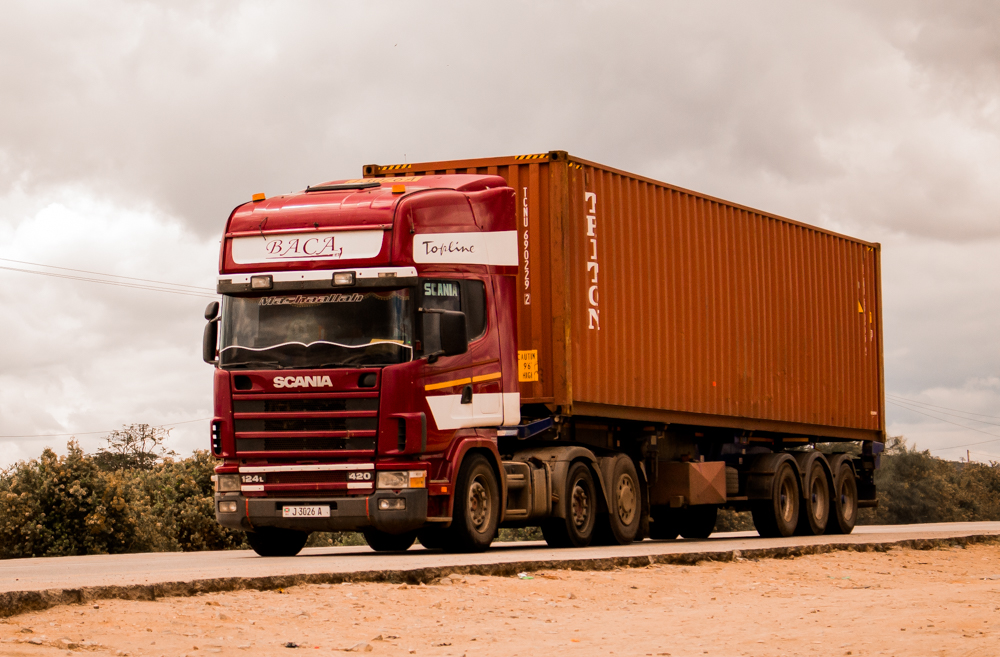 This is an image with the theme "Africa on the Move or Transport" from: Tanzania